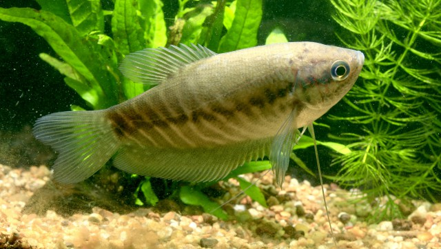 Trichopodus pectoralis